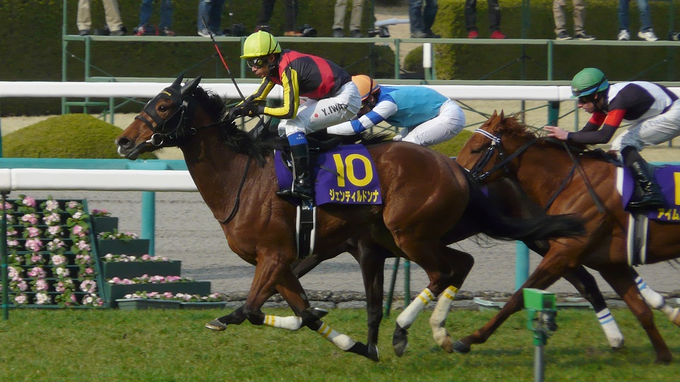 Gentildonna20120408